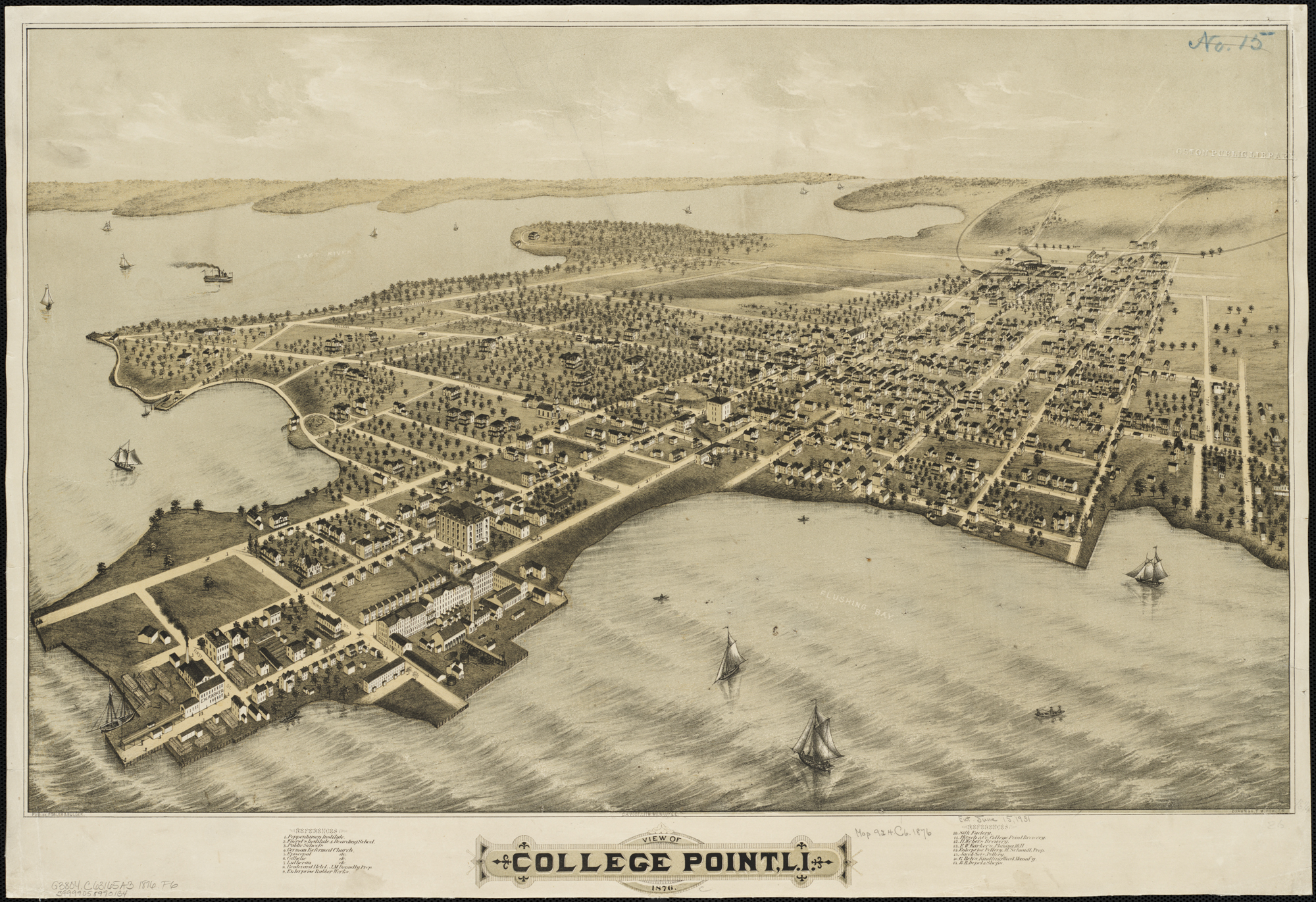 Zoom into this map at . Author: Fowler, T. M. Publisher: Fowler & Bulger Date: [1876] Location: College Point (New York, N.Y.) Scale: Not drawn to scale. Call Number: G3804.C63165A3 1876.F6